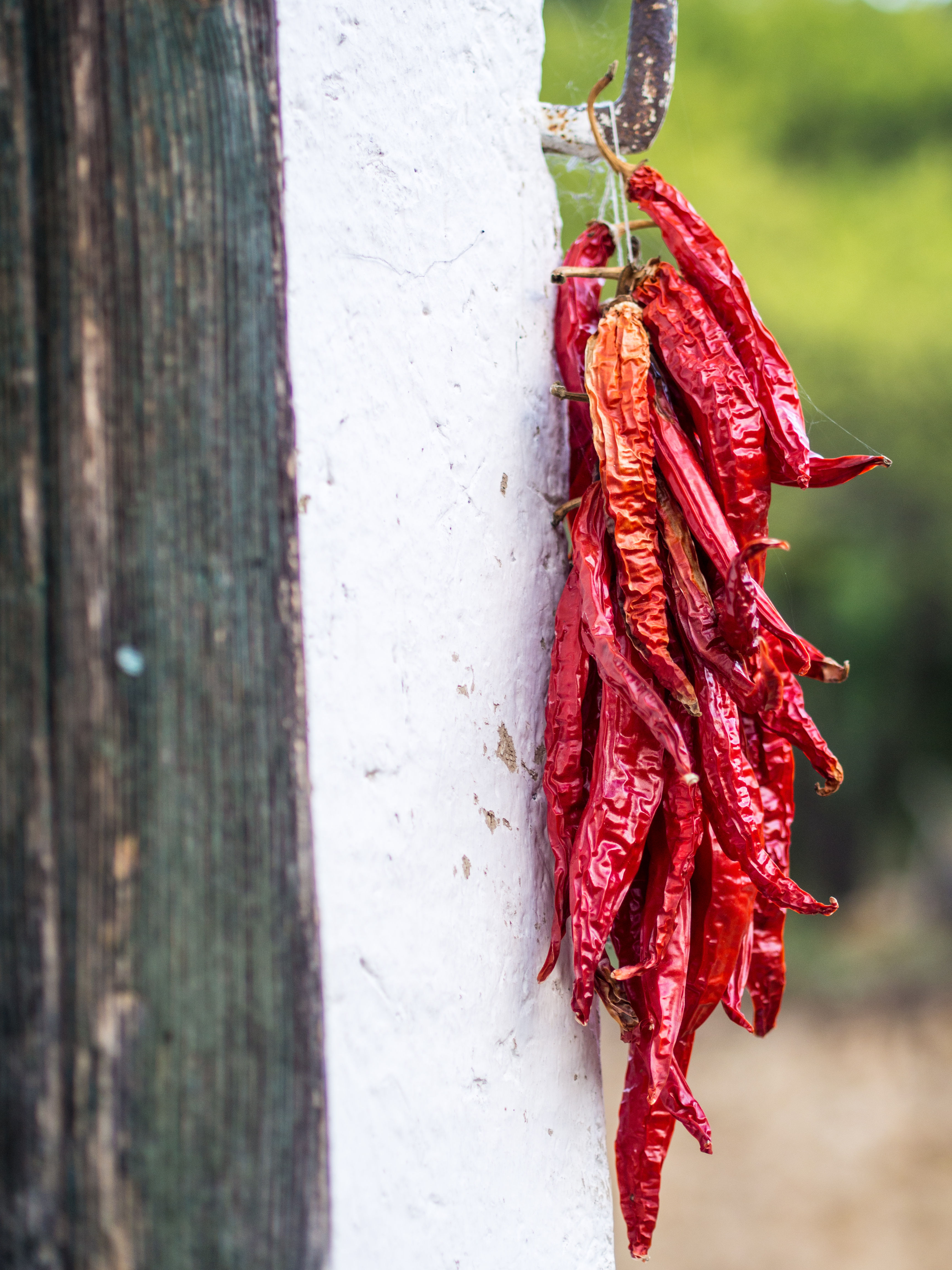 paprika